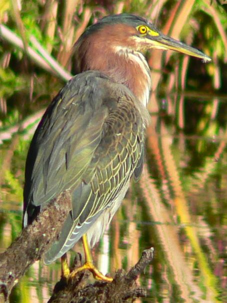 Green Heron